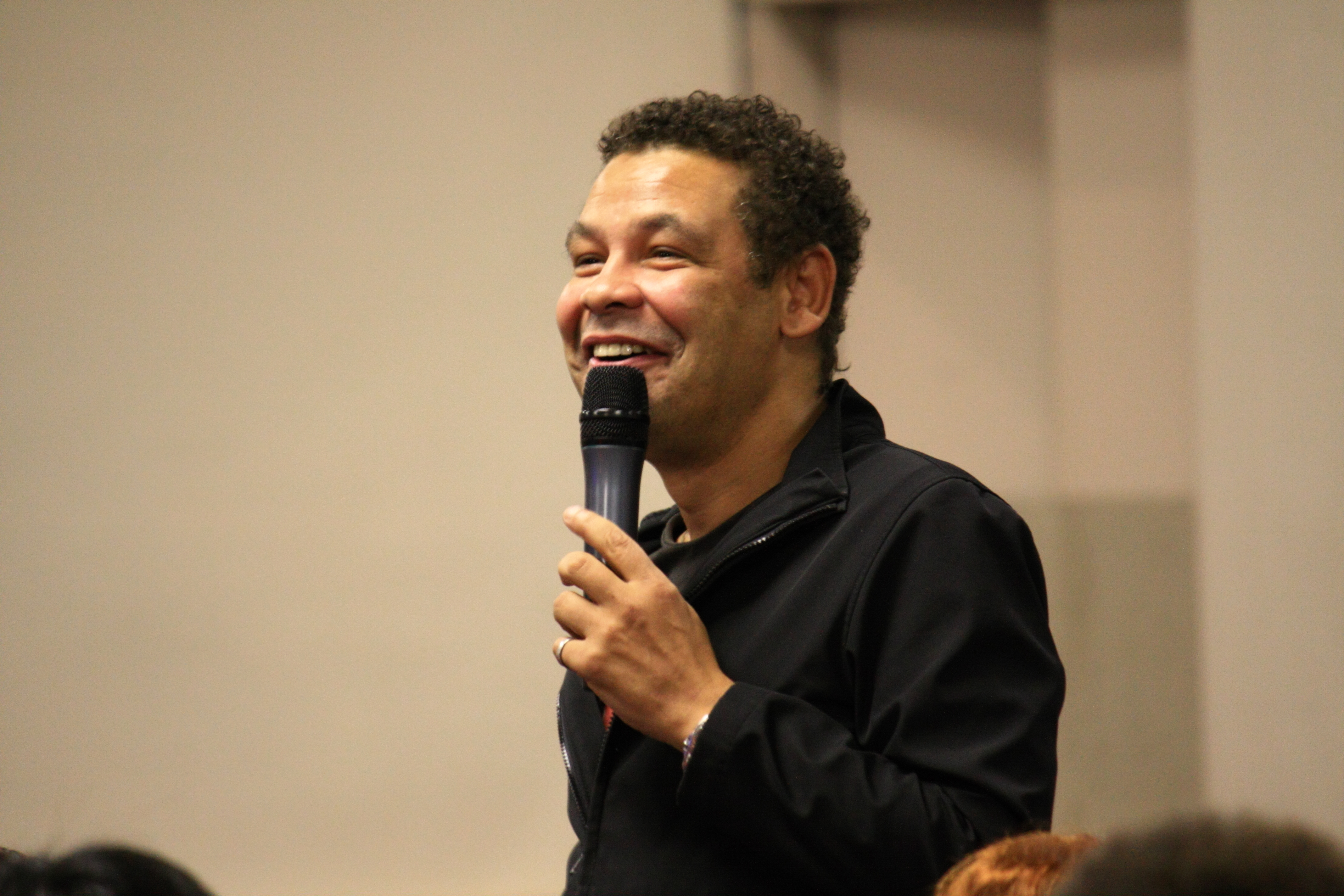 Craig Charles aka Dave Lister from Red Dwarf at Dimension Jump XV, Birmingham UK